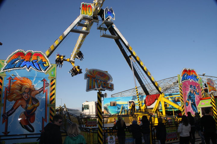 No Limit attraction with Lunds Tivoli